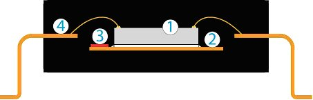 C-Sam generated Image